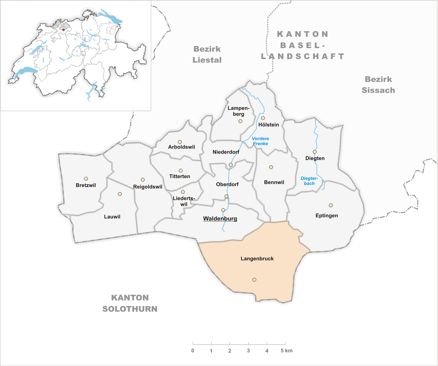 Municipality Langenbruck